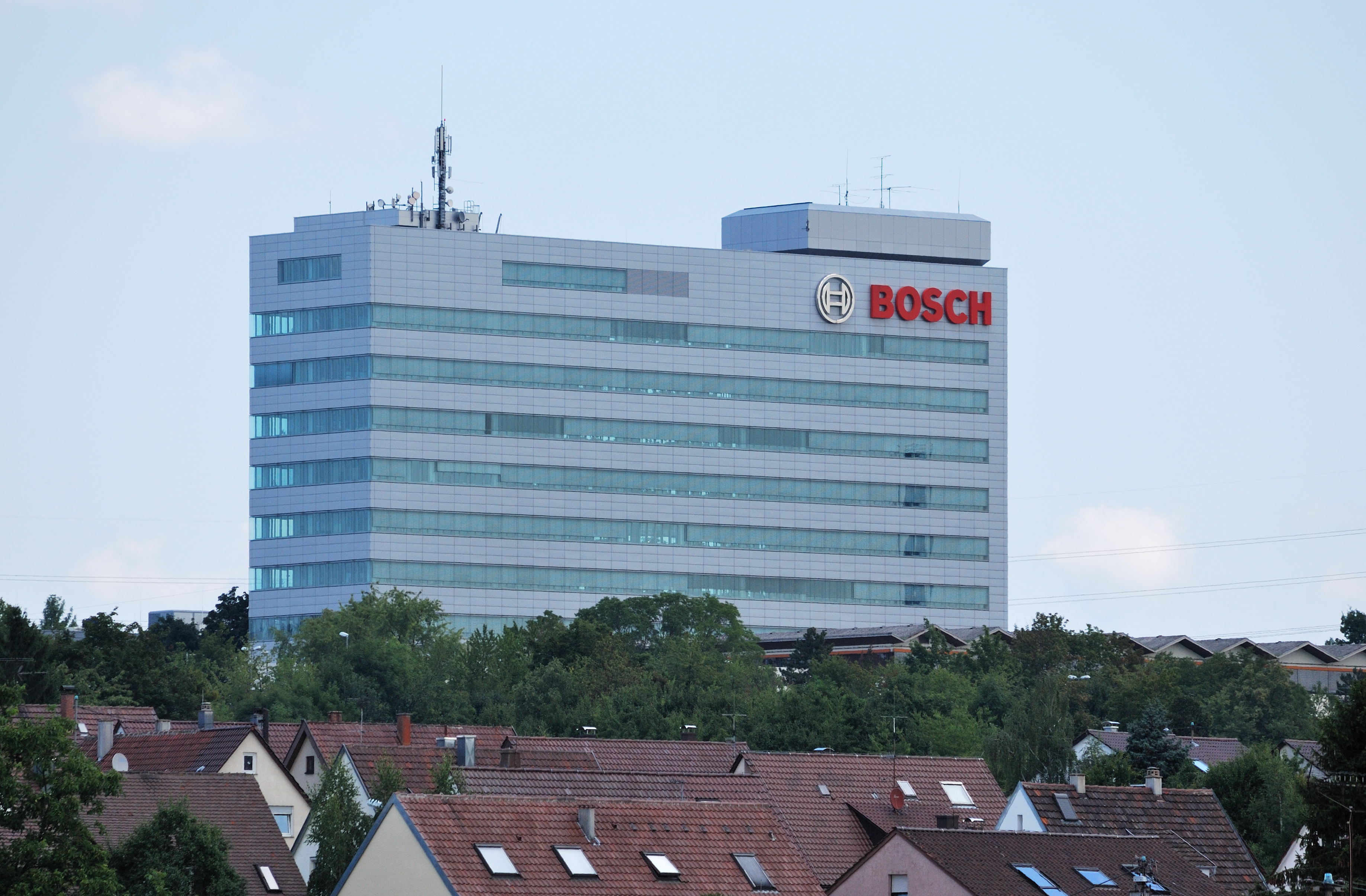 Development center of the Robert Bosch GmbH in Schwieberdingen in the federal state Baden-Württemberg in Germany.